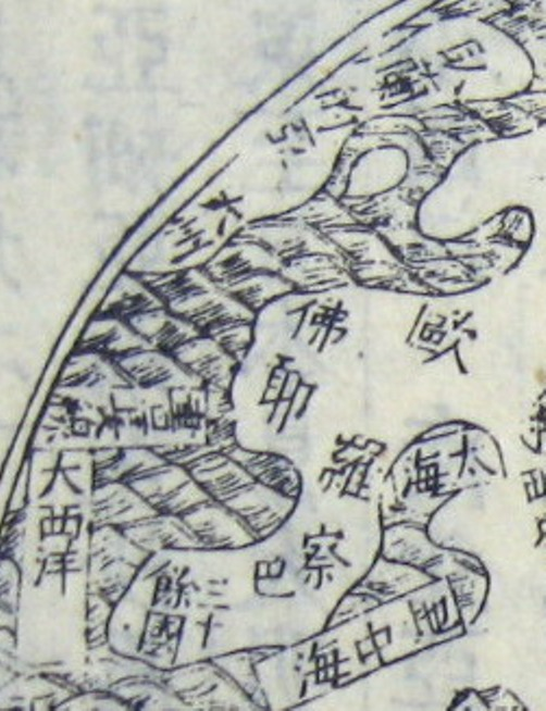 Sancai_Tuhui (Europe)